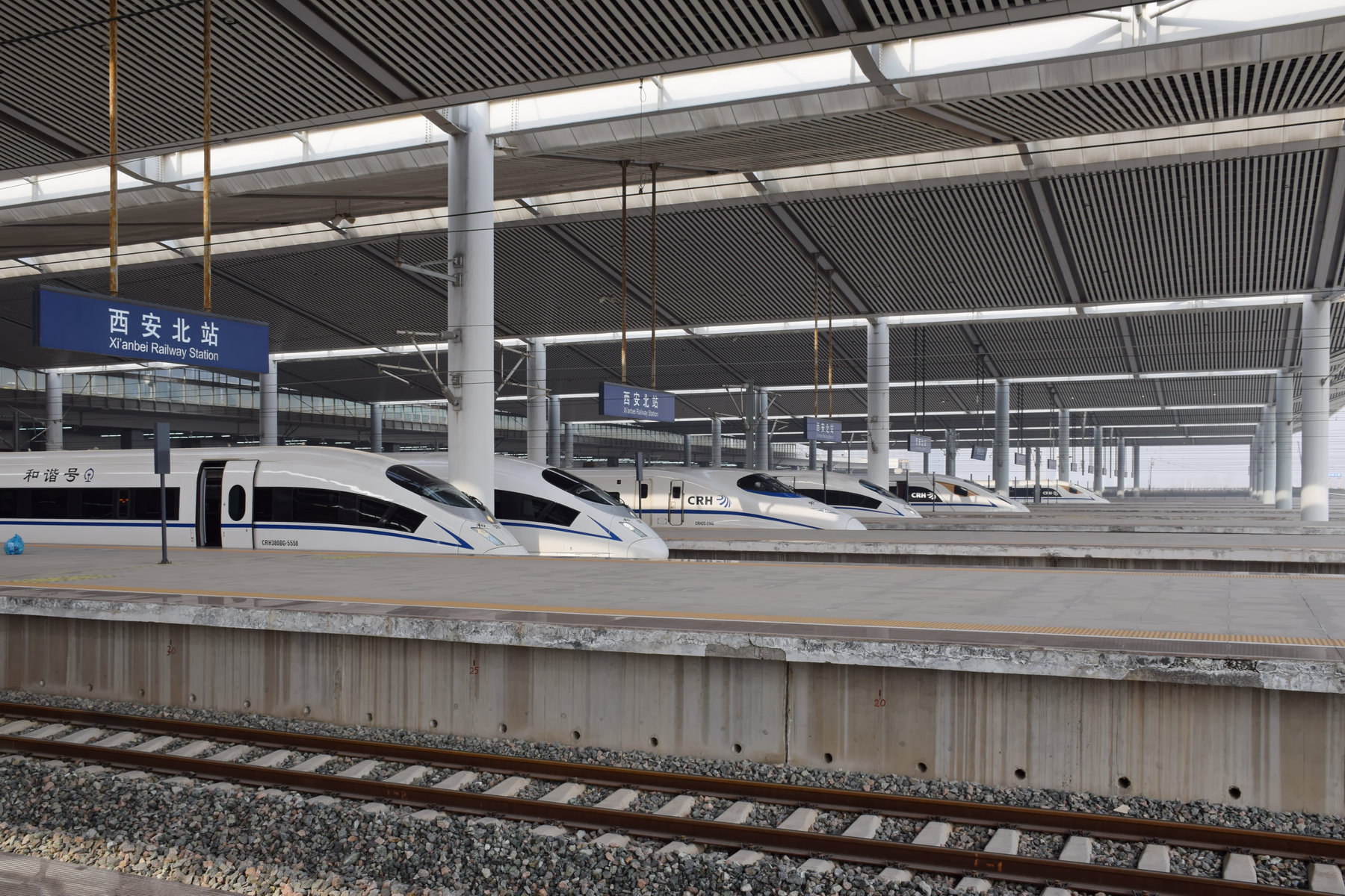 CRH380BG/CRH2C/CRH3A EMU were stopping at Xi'an Bei (North) Railway Station